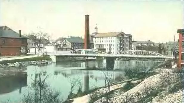 Mills on Blackstone River, 1906, Valley Falls, RI; from an old postcard.